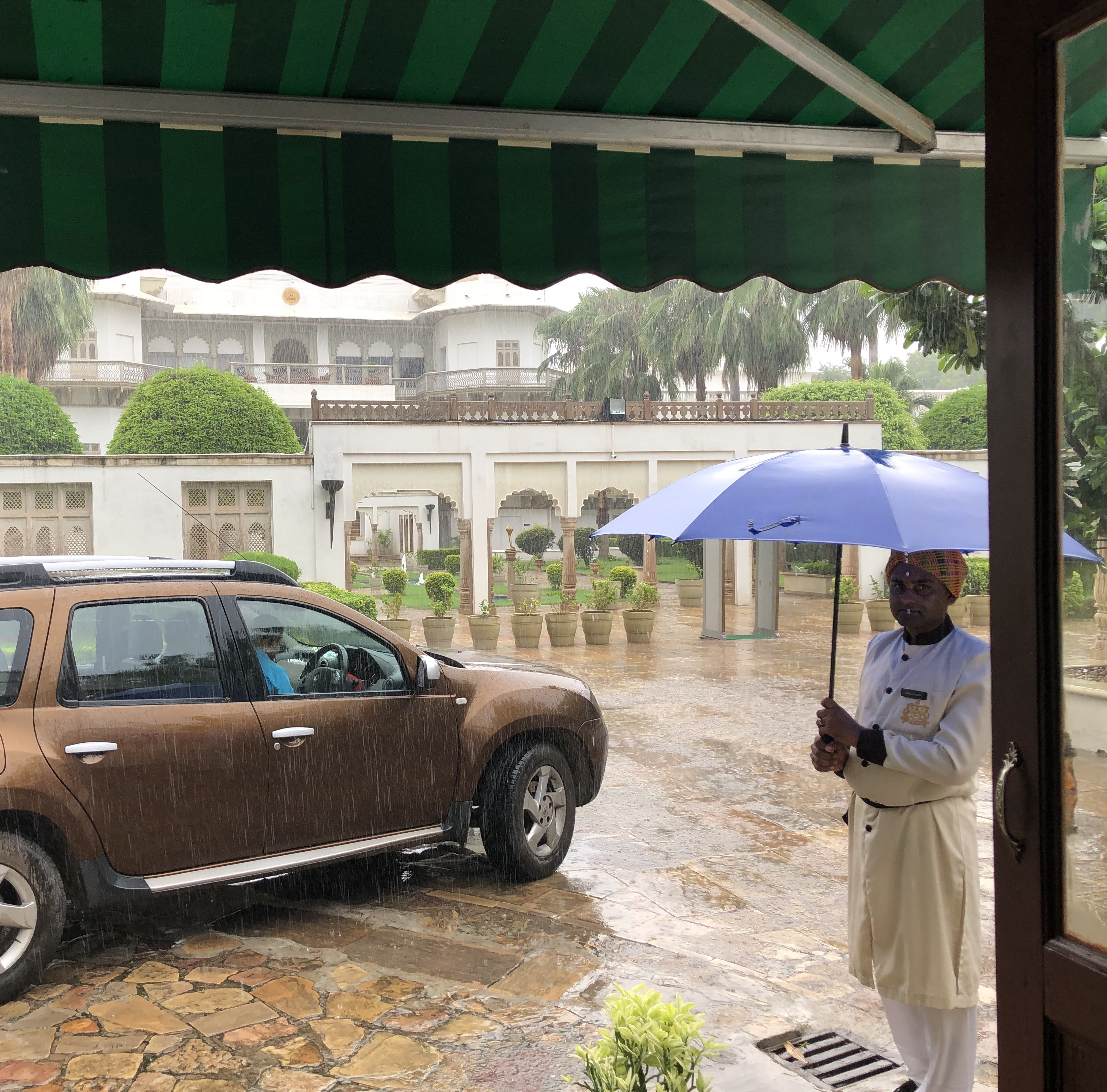 Taj Usha Kiran Palace Hotel doorman